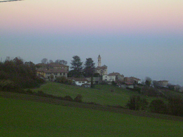 Photo of Pigazzano